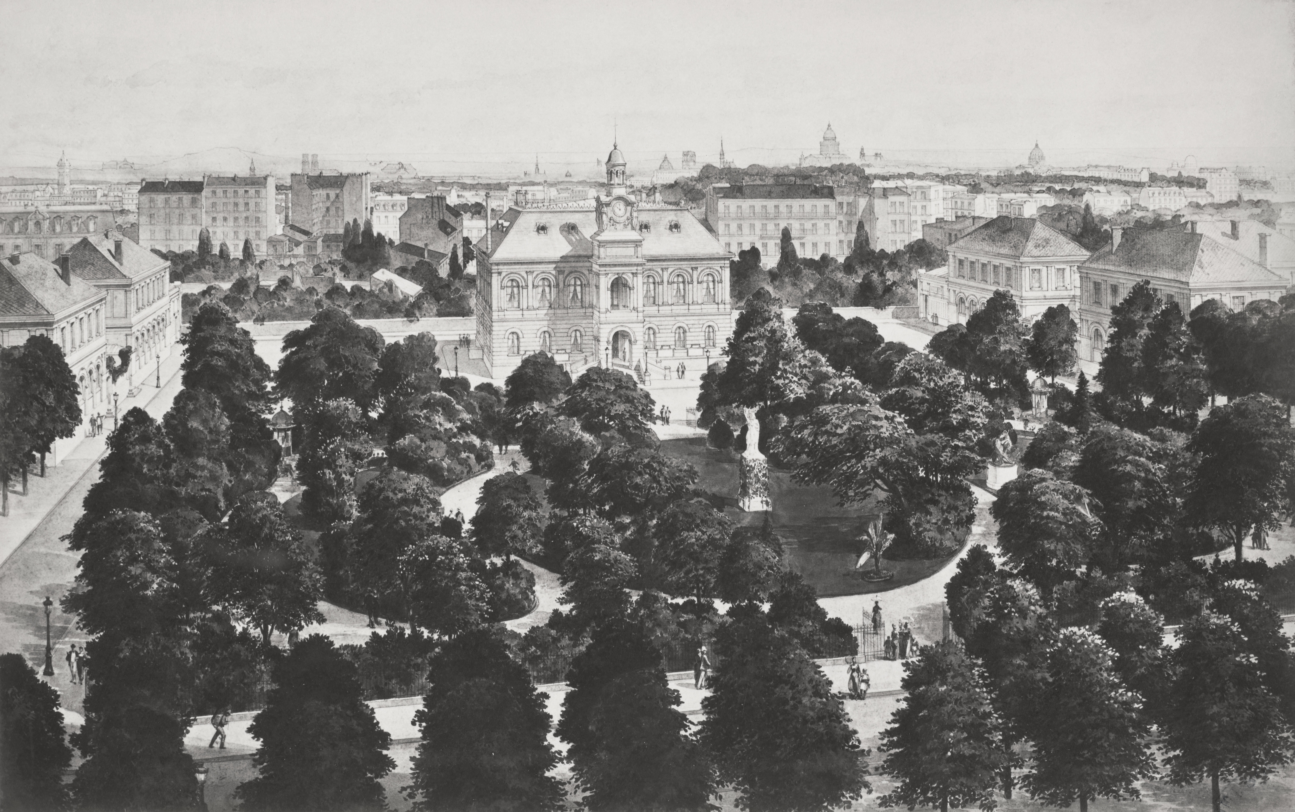 Photographed from a drawing: Elevated view of park with statues, building with portico and clock tower in background, city buildings in background.